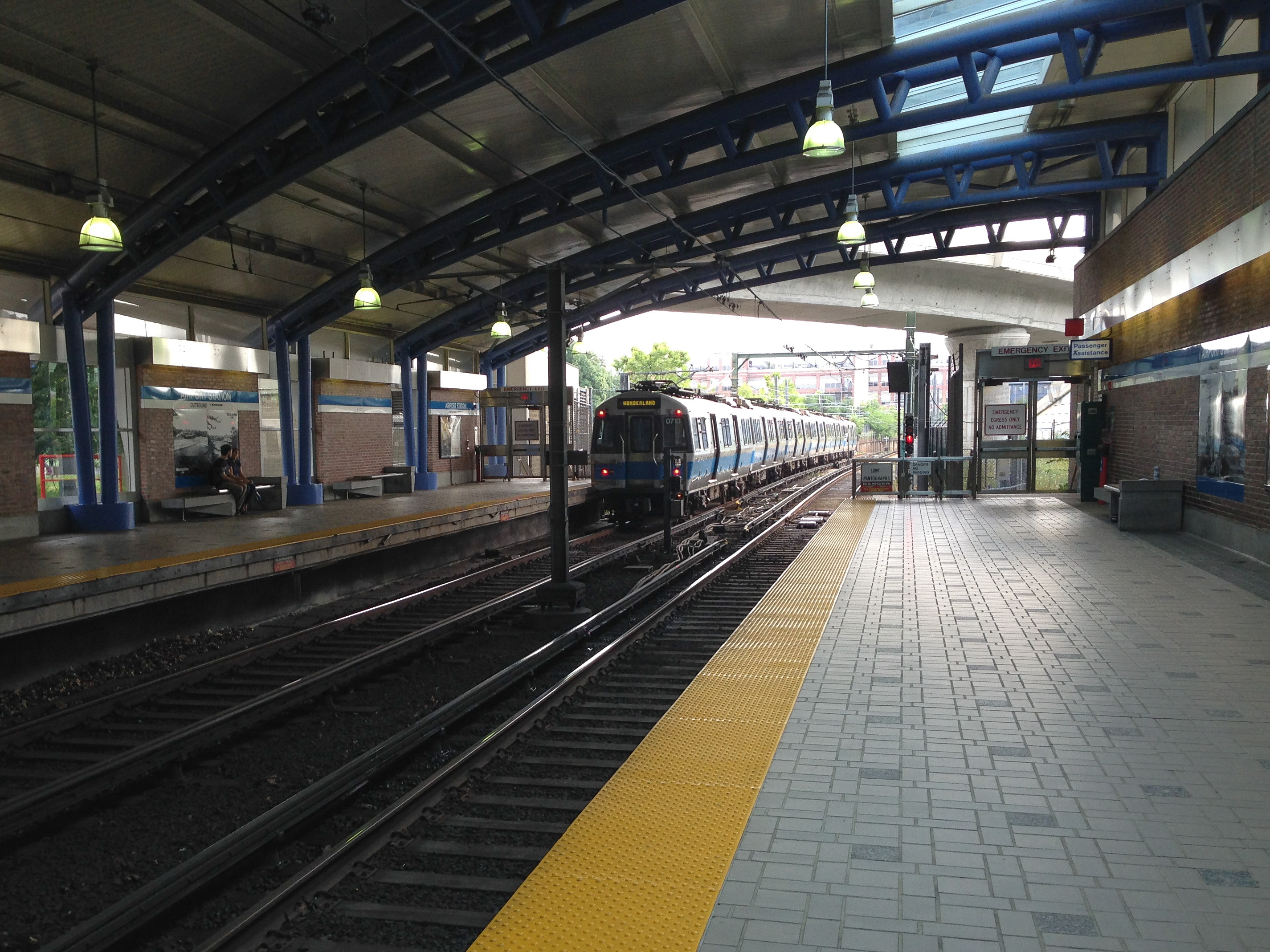 A northbound Blue Line train approaches the platform at the MBTA's Airport Station.